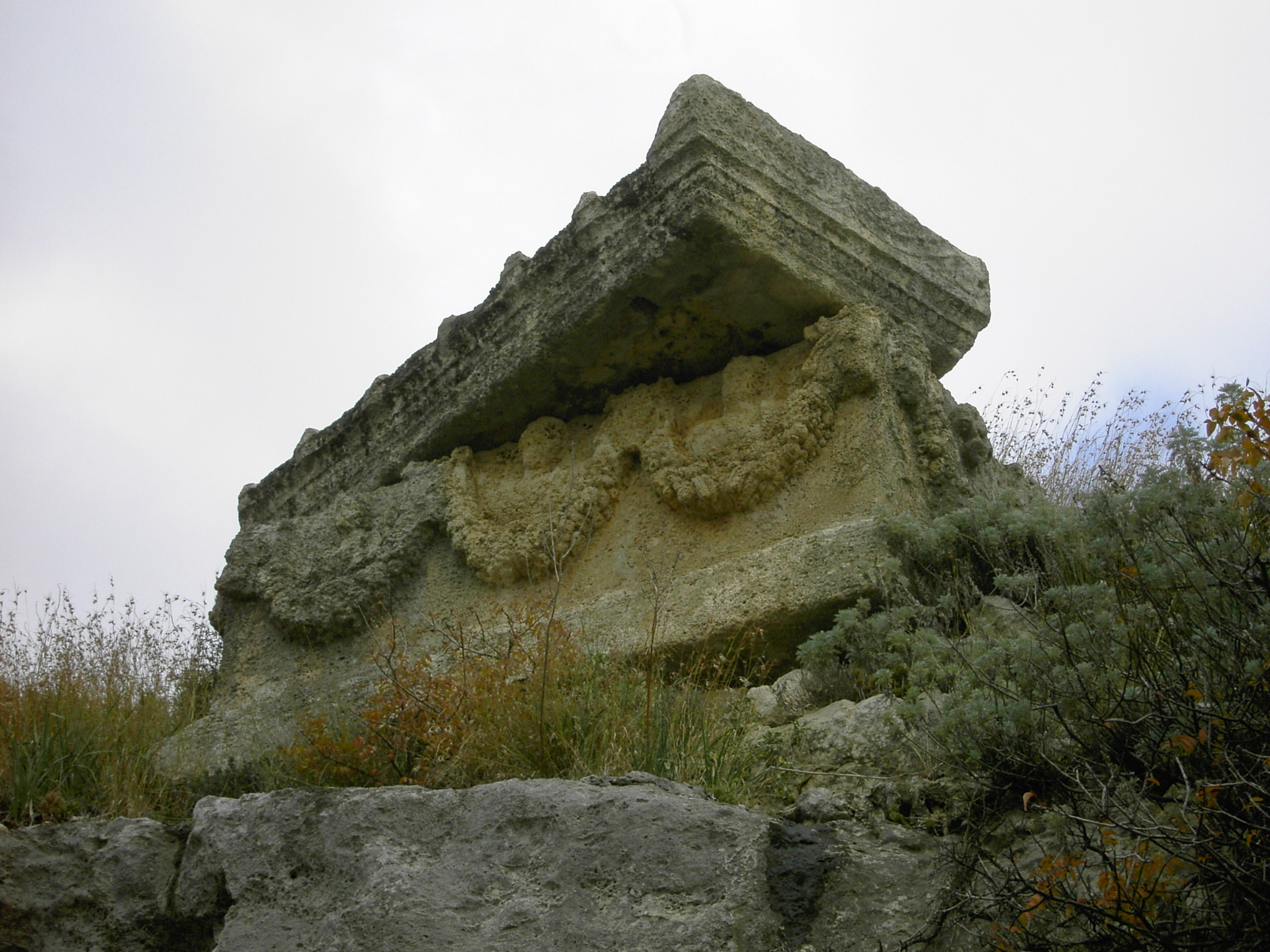 A Roman sarcophagus on the hills of the ancient city, Seleucia Pieria